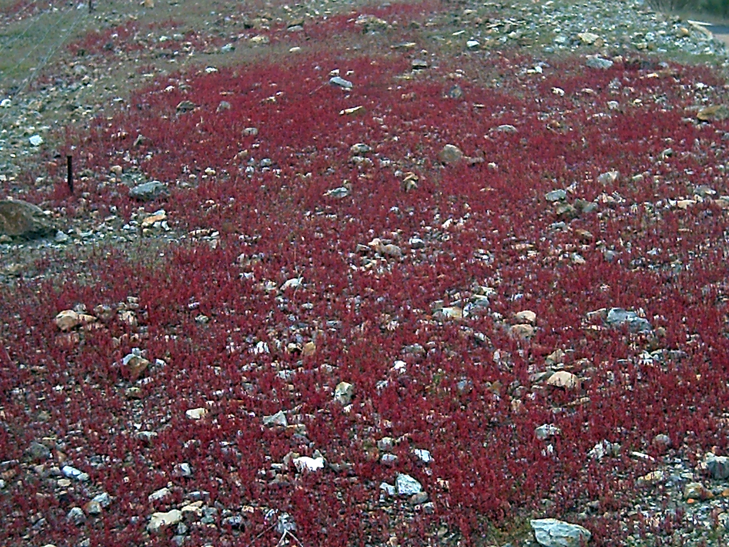 Rumex_bucephalophorus in Mestanza, Province of Ciudad Real, Spain